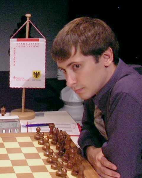 Dmitry Jakovenko, Dortmunder Schachtage 2009, Photographer Gerhard Hund.